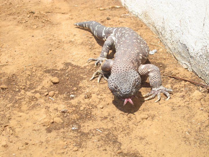 Monstruo de Gila